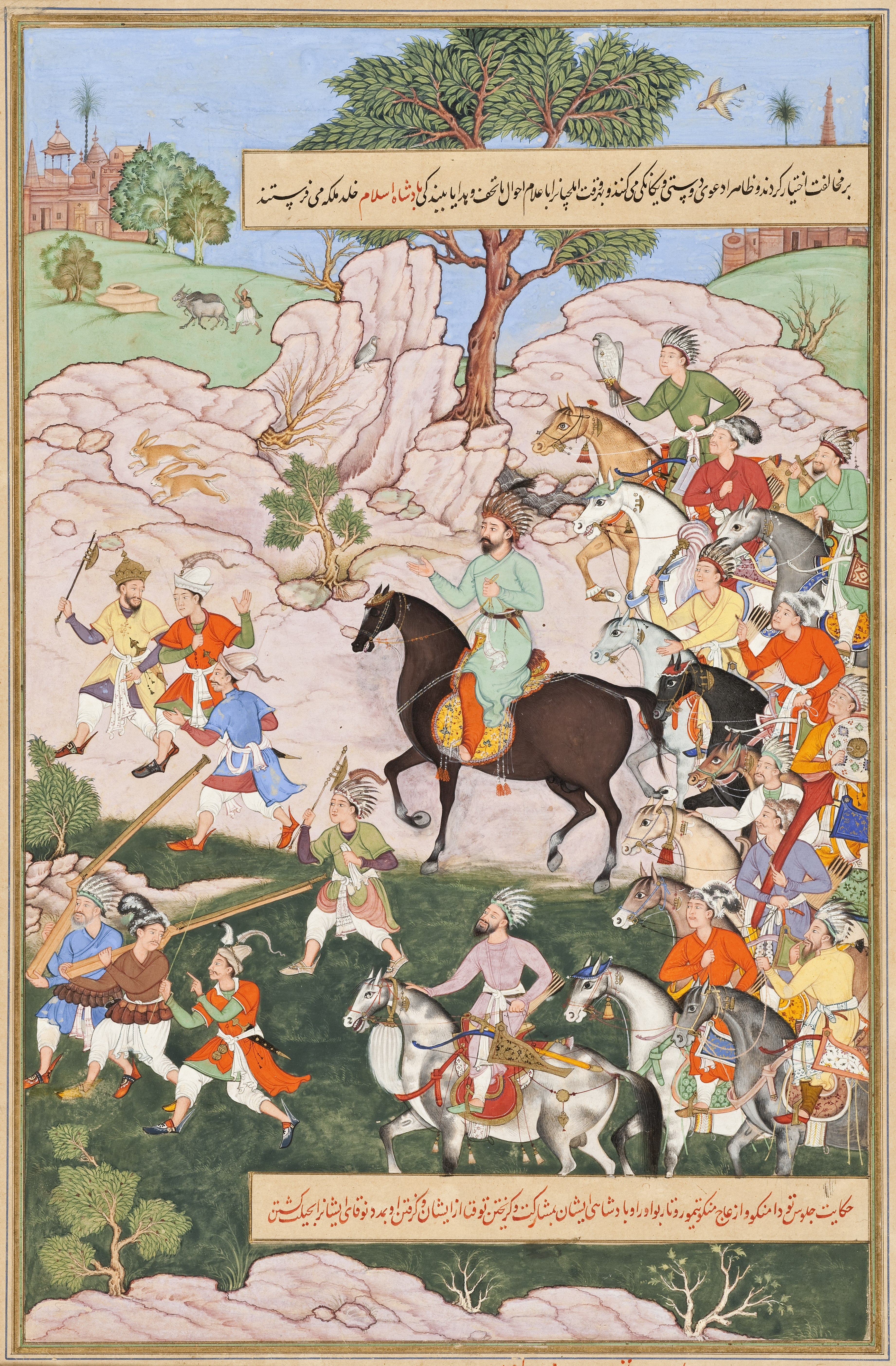 Tulsi , Madhu Toda Mongke and His Mongol Horde, Folio from a Chingiznama (History of Genghis Khan), 1596 Painting; Watercolor, Opaque watercolor, gold, and ink on paper, Sheet: 15 x 10 in. (38.1 x 25.4 cm); Image: 12 3/8 x 8 in. (31.4 x 20.3 cm) From the Nasli and Alice Heeramaneck Collection, Museum Associates Purchase (M.78.9.8) South and Southeast Asian Art Department.